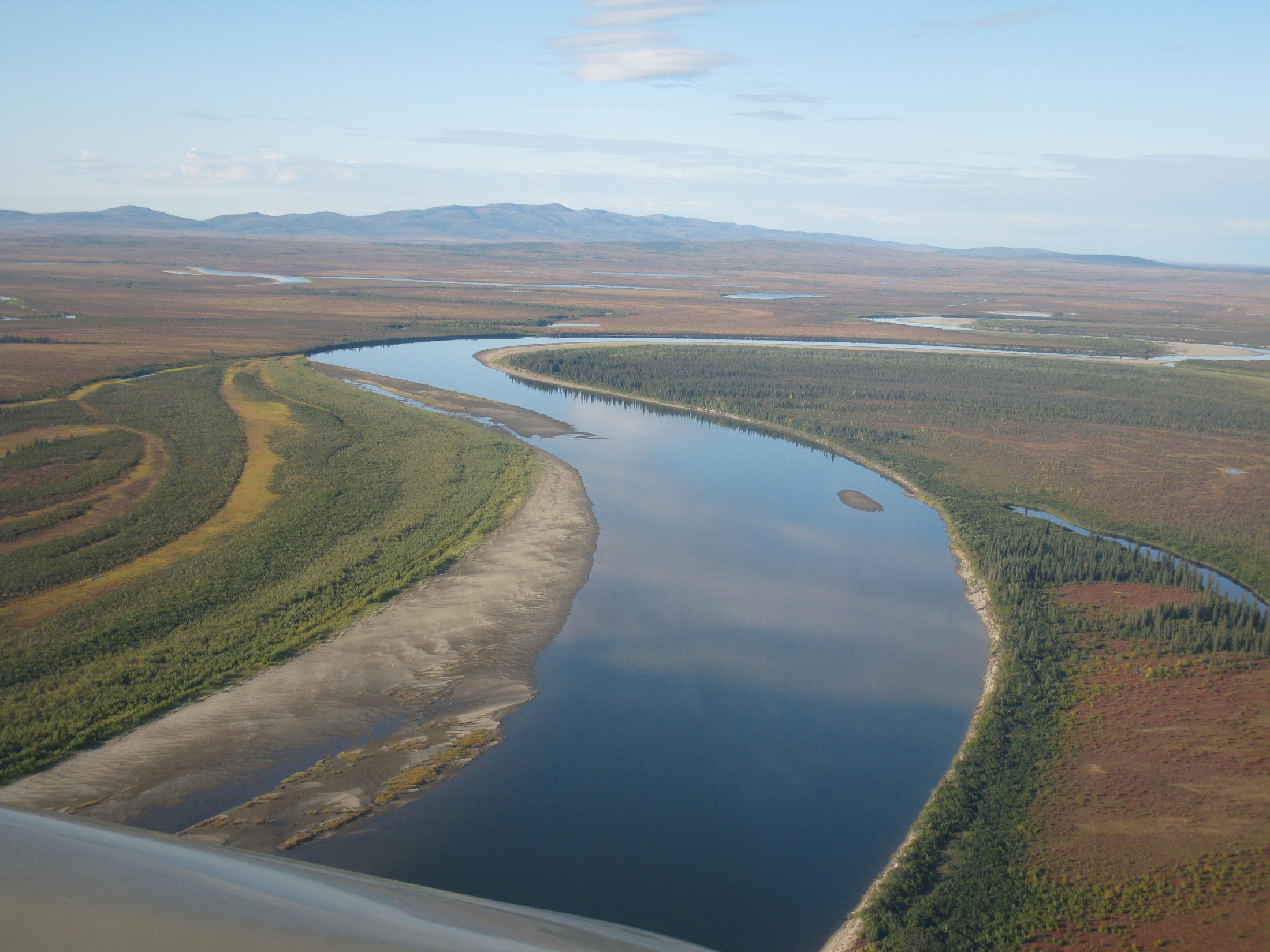 Kobuk River